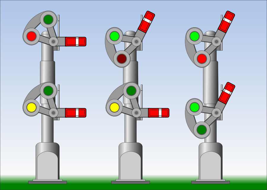 US - 2 arm - dwarf